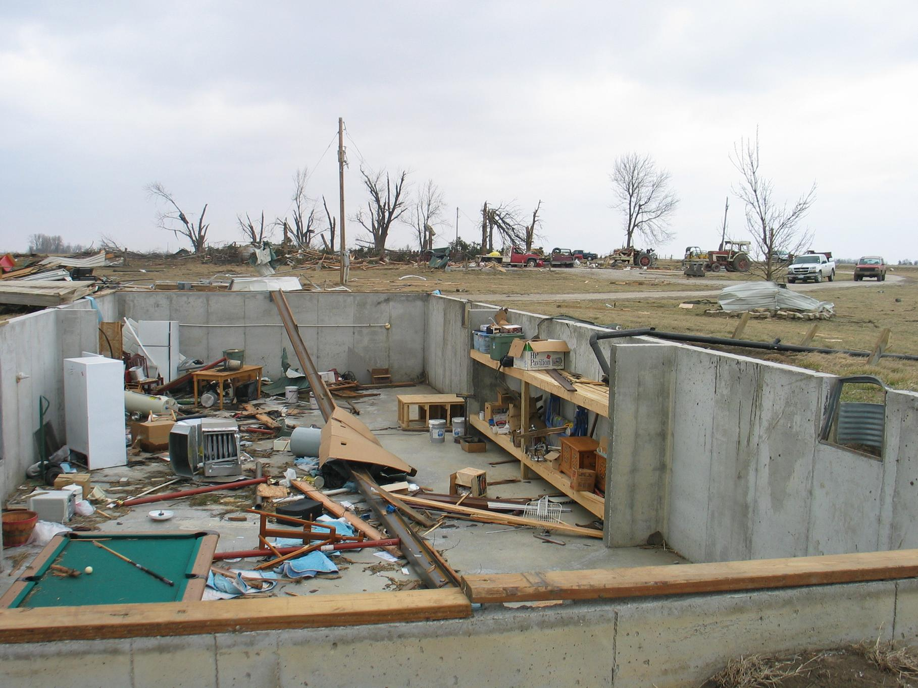 Damage left by an EF4 (Enhanced Fujita Scale level 4) on 28 Feb – 1 Mar 2007 in Eastern Kansas.